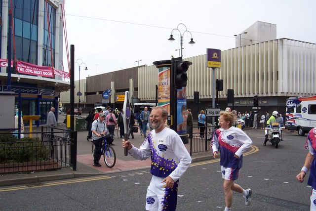 Bilston St./Garrick St. The Queen's Jubilee Baton Relay passes through Wolverhampton before the 2002 Commonwealth Games in Manchester.